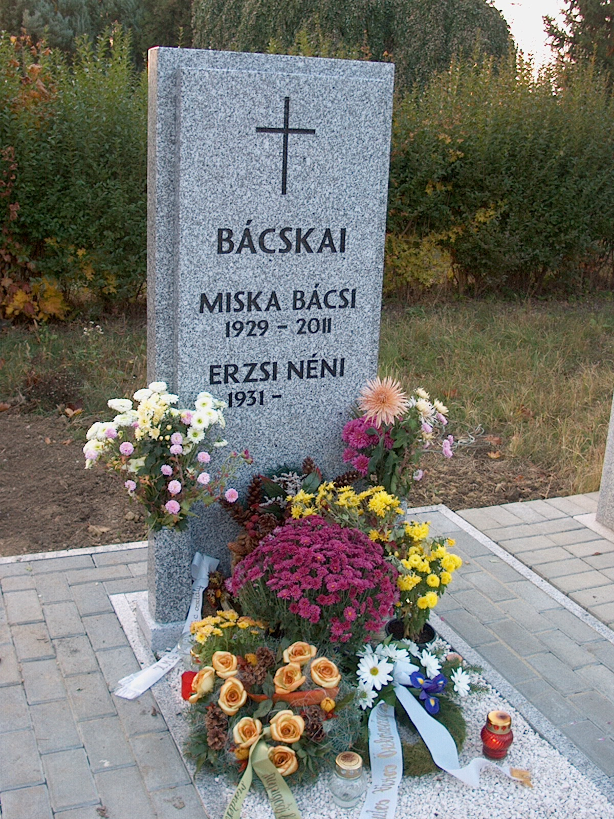 Mihály Bácskai tomb - Szentes, Calvary cemetery, plot citizens of honor